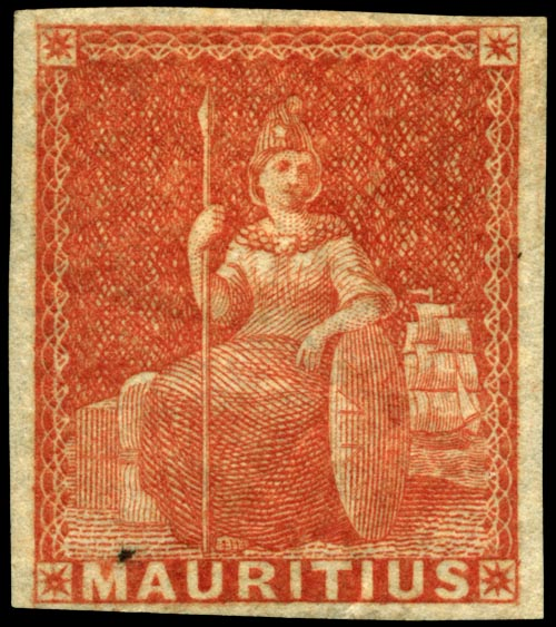 Mauritius 6p stamp of 1858